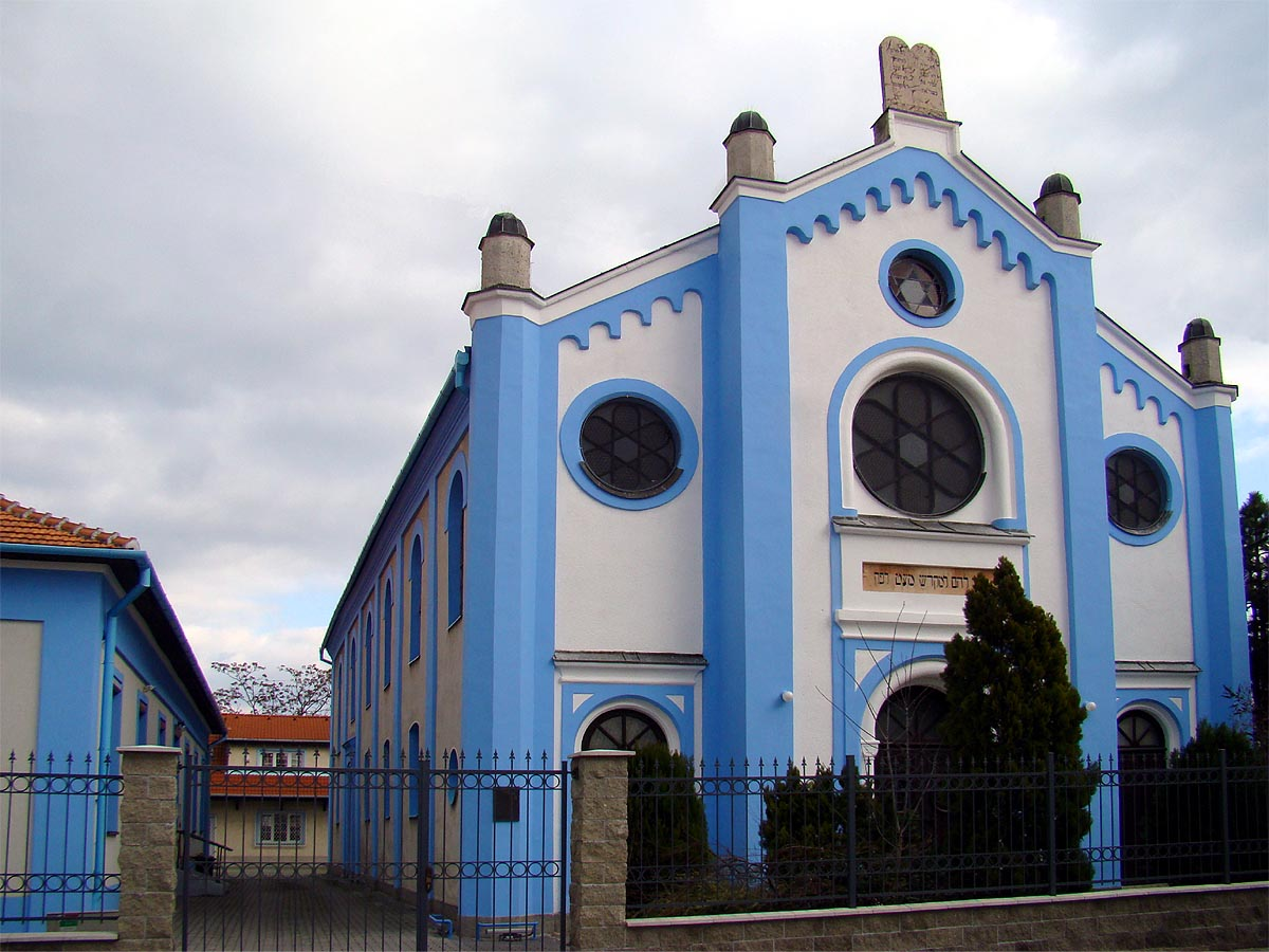 Orthodox synagogue in Nové Zámky, Slovakia